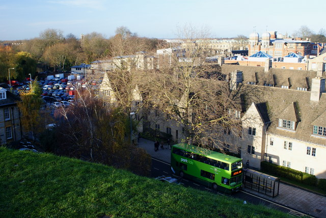 View north from the motte of Oxford Castle to Nuffield College in the foreground and Worcester College in the distance